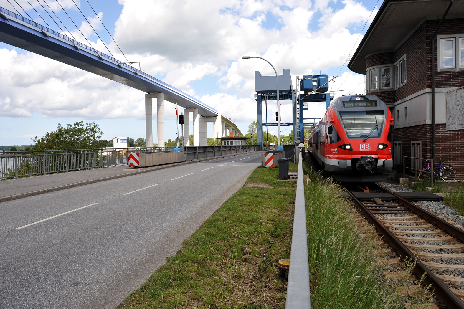 Ziegelgraben bridge in Stralsund crossing the Strelasund; from left to right: New Ziegelgraben bridge (Cable-stayed bridge), Ziegelgraben bridge for road and railway (Bascule bridges); Mecklenburg-Vorpommern, Germany.